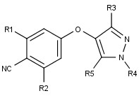 Progesterone receptor antagonists based on a pyrazole core with small lipophilic substituents